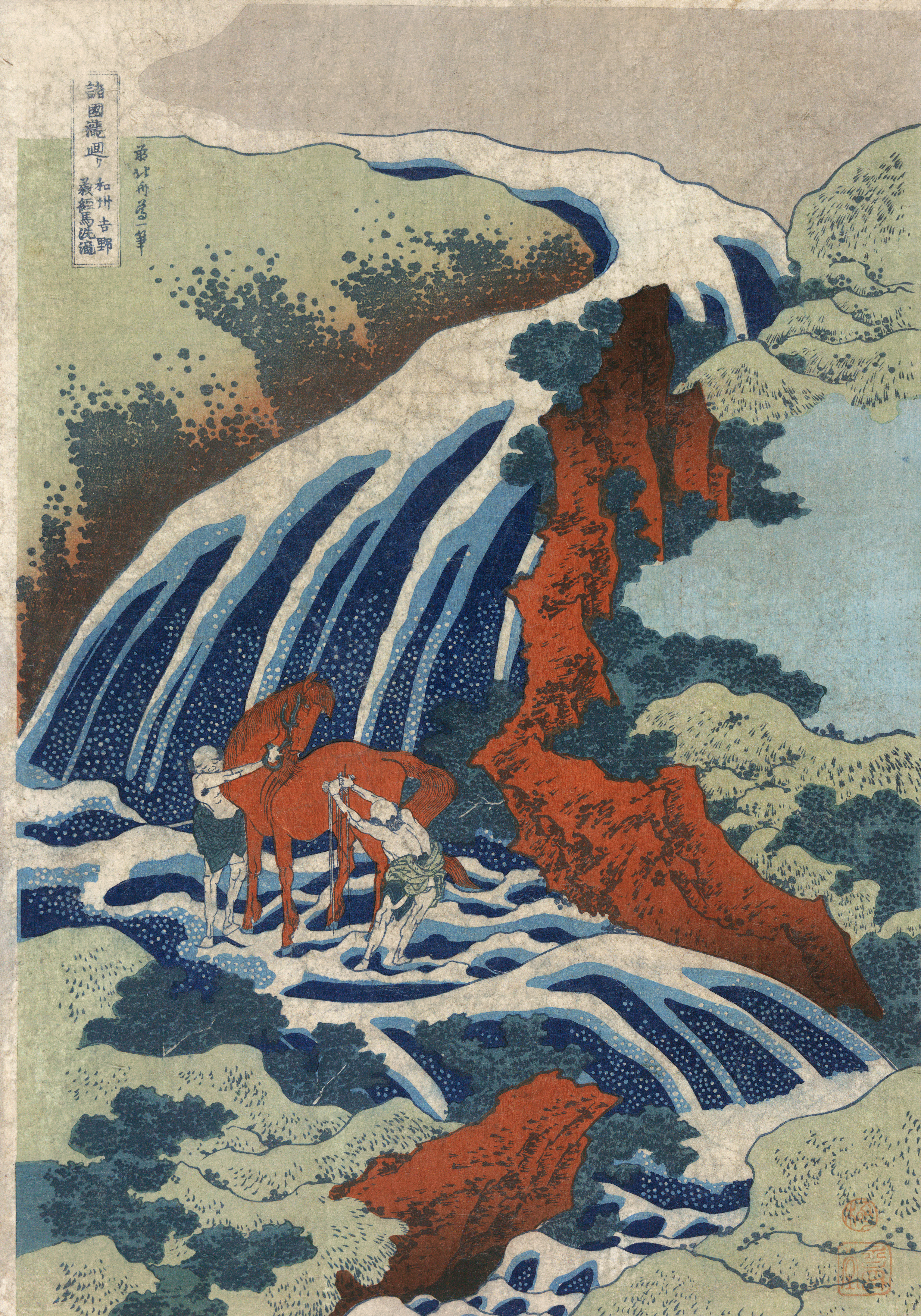 Washū yoshino yoshitsune uma arai no taki (Yoshitsune Umarai waterfall at Yoshino in Washū). Woodcut print after Katsushika Hokusai (葛飾北斎) from the series Shokoku taki meguri (Visiting famous waterfalls of Japan), created 1832 or 1833. This version is an undated reprint. From the Japanese Fine Prints Collection at the Library of Congress More Japanese items | More fine prints [PD] This picture is in the public domain